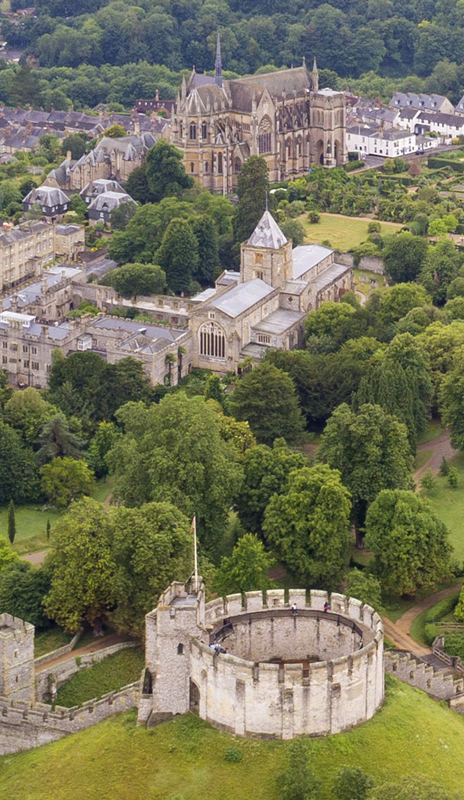 In the foreground, the central mott of Arundel Castle; in the middle distance, the church building housing both Fitzalan Chapel (near side) and the Church of Saint Nicholas (far side), with Arundel Priory to the left; in the distance, Arundel Cathedral.